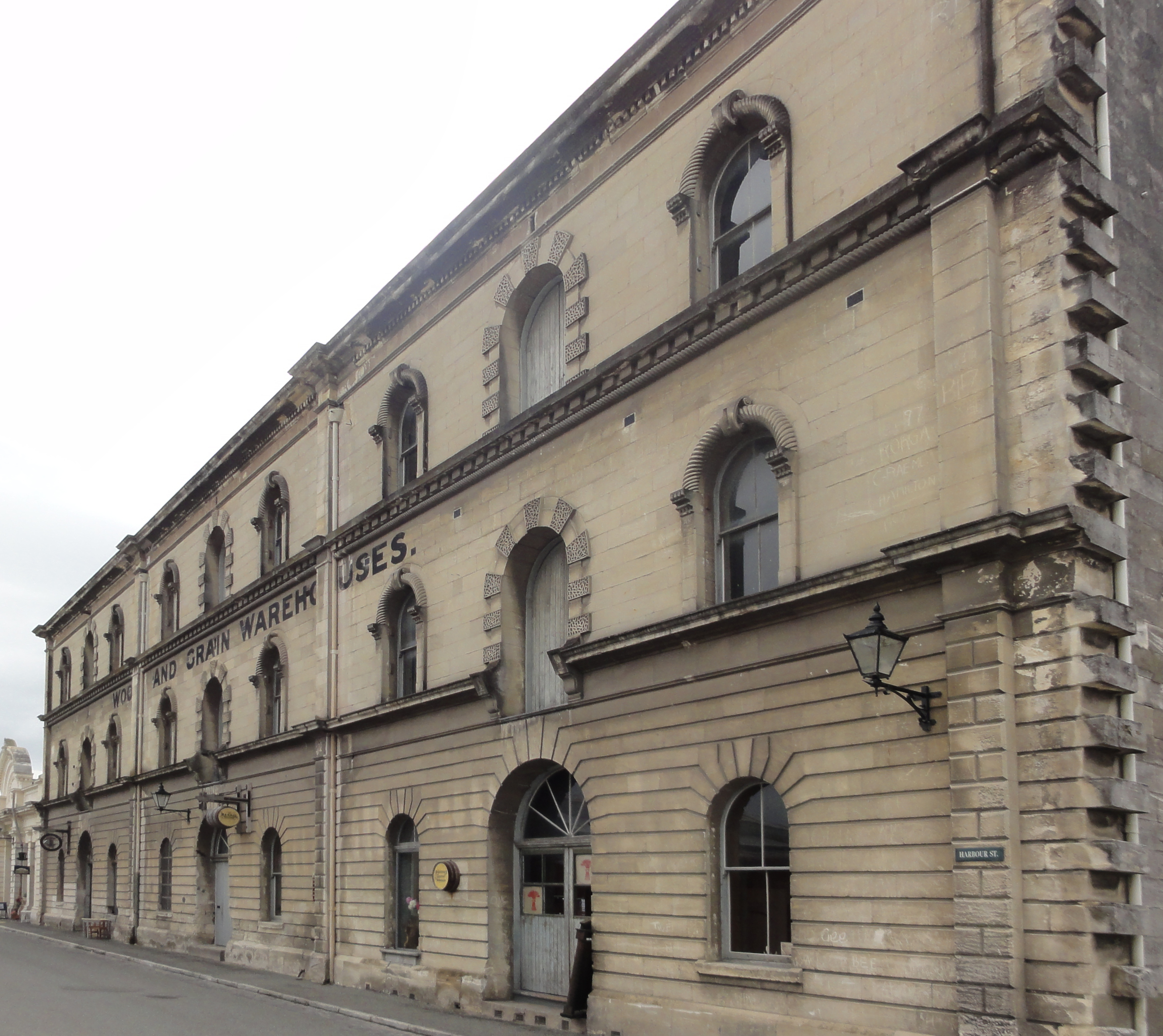 NZ Loan and Mercantile Company, Harbour Street, Oamaru NZ